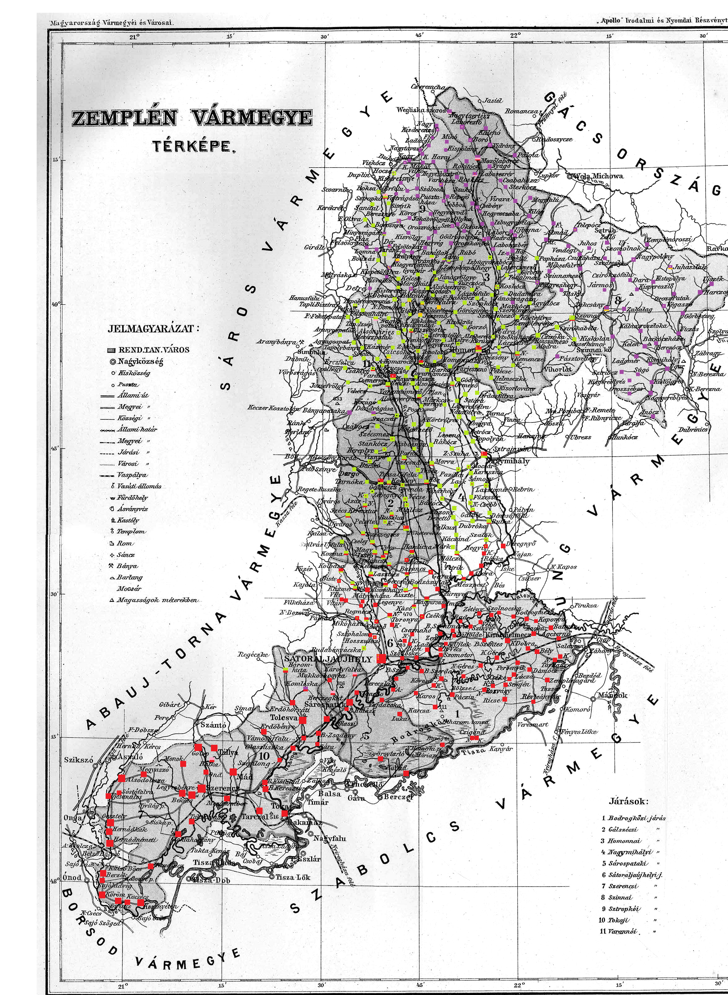 Ethnic map of the county (with data of the 1910 census). Key: red - Hungarians; light green - Slovaks; violet - Ruthenians; pink - Germans; black - Roma; orange - Polish. Coloured dots in plain rectangles imply the presence of smaller minority populations (generally more than 100 people or 10%). Multicoloured rectangles imply cities and villages with multi-ethnic populations with the order of the stripes following the ethnic composition of the settlement. Five minority communities in the southern part of the county (Hercegkút, Komlóska, Háromhuta, Rátka, Károlyfalva) inexplicably disappeared in this census, they were indicated on the map.